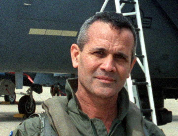 Maj. Gen. Herzel Bodinger, ISRAELI Air Force Commander Location: SEYMOUR JOHNSON AIR FORCE BASE, NORTH CAROLINA (NC) UNITED STATES OF AMERICA (USA)